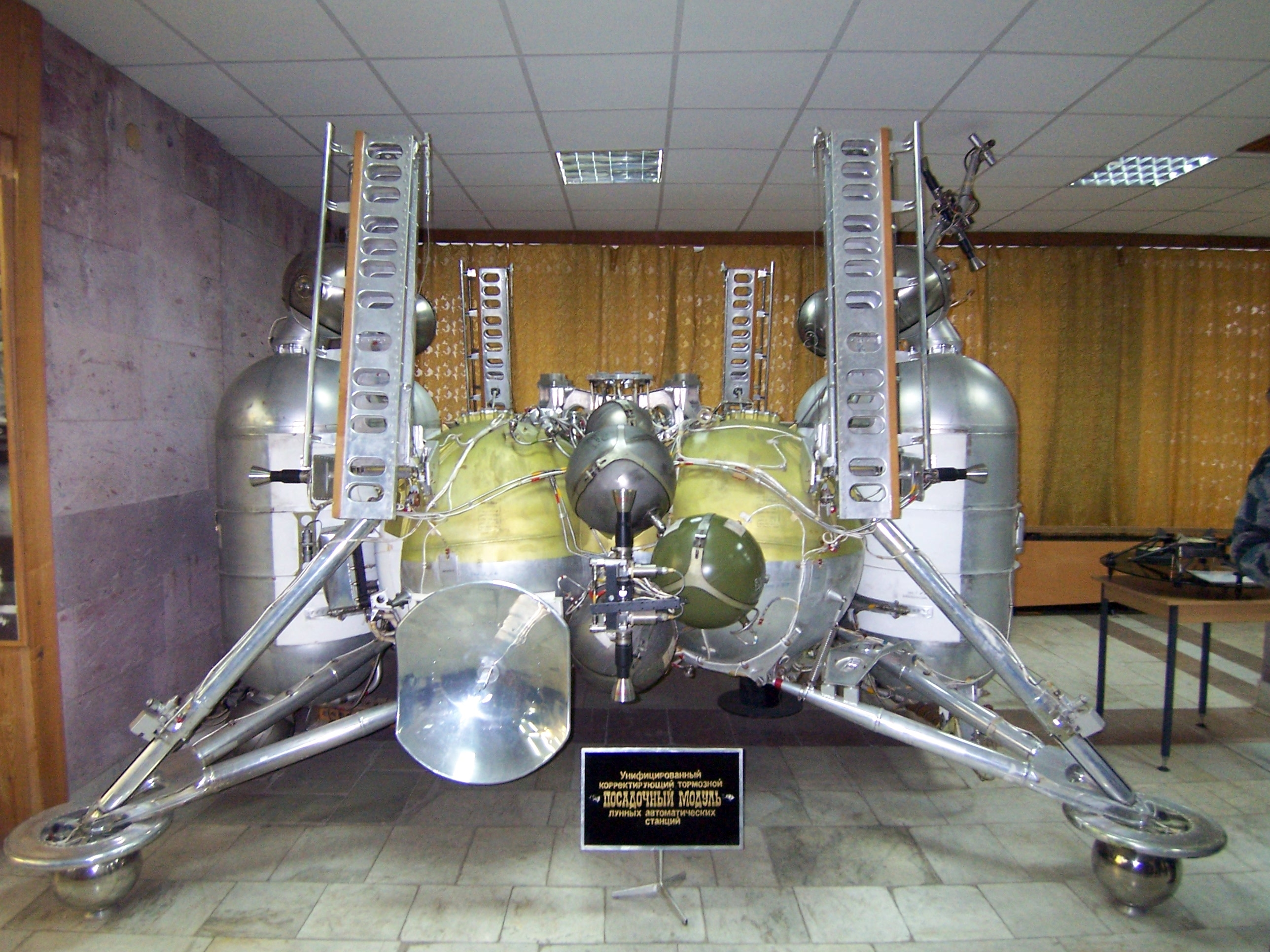 Luna probe landing module